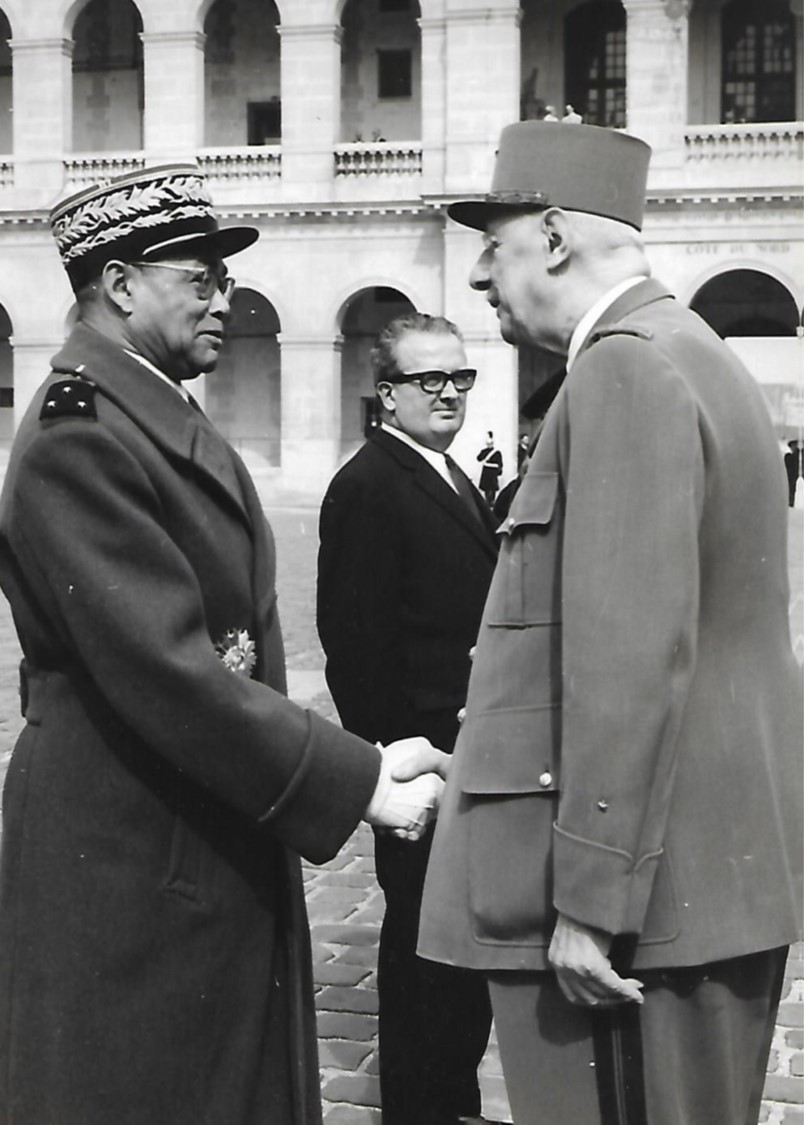 General de Gaulle honoring Adolphe Diagne in the courtyard of the Hotel des Invalides in Paris, alongside Yvon Morandat